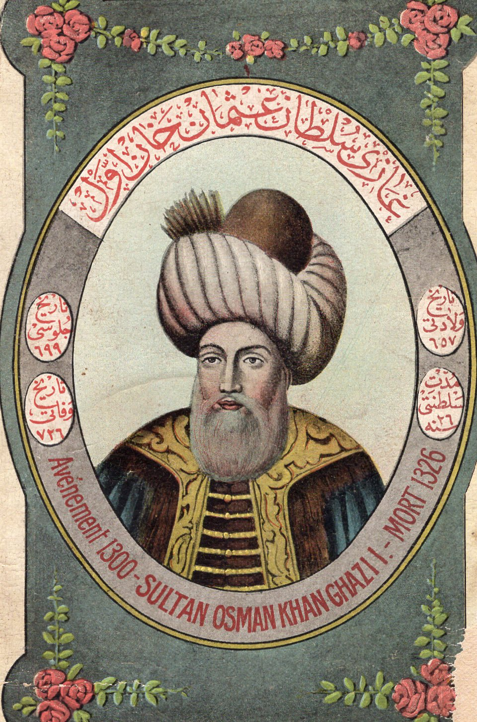 Postcard depicting the Sultan Osman Gazi Khan I (1300-1326) This media file is produced by Wikipedian in Residence in Category:Wikipedian in Residence at DARM in 2016.